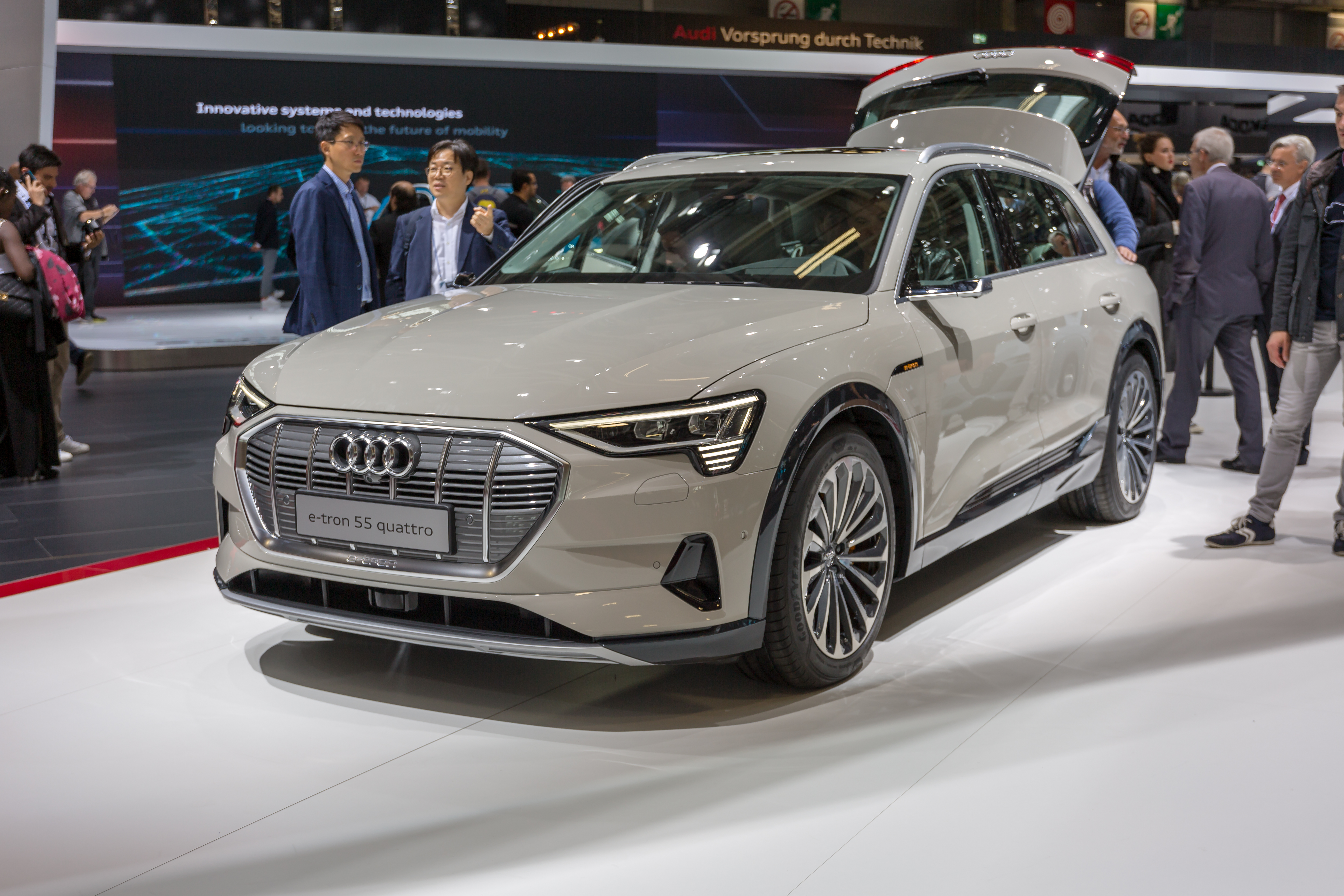 Audi e-tron, Mondial Paris Motor Show 2018